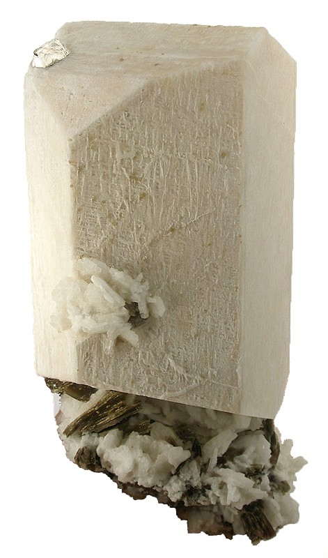 Feldspar Locality: Virgem da Lapa, Jequitinhonha valley, Minas Gerais, Southeast Region, Brazil (Locality at ) Size: 18 x 21 x 8.5 cm. A superb, textbook feldspar crystal. Not only is it large, but it is stark white, perched on a natural pedestal, and just an amazing display of perfection in symmetry in nature. Ex. Franz Saller Collection of Bavaria, Germany; probably purchased in the 1980s. The piece is pristine and complete-all-around - remarkably free of damage.